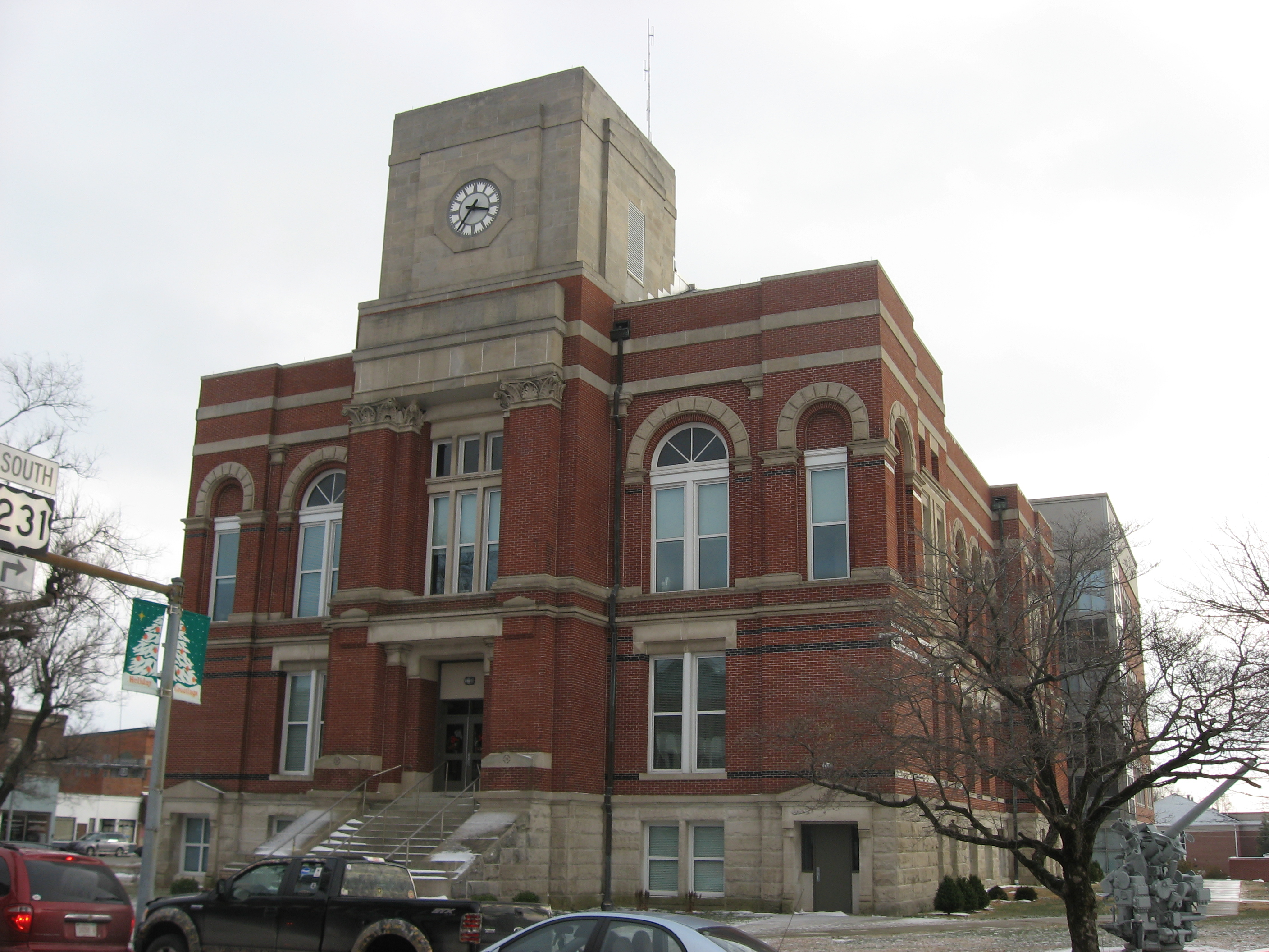 Front of the Greene County Courthouse, located on Courthouse Square in downtown Bloomfield, Indiana, United States. Built in 1885, it is listed on the National Register of Historic Places.